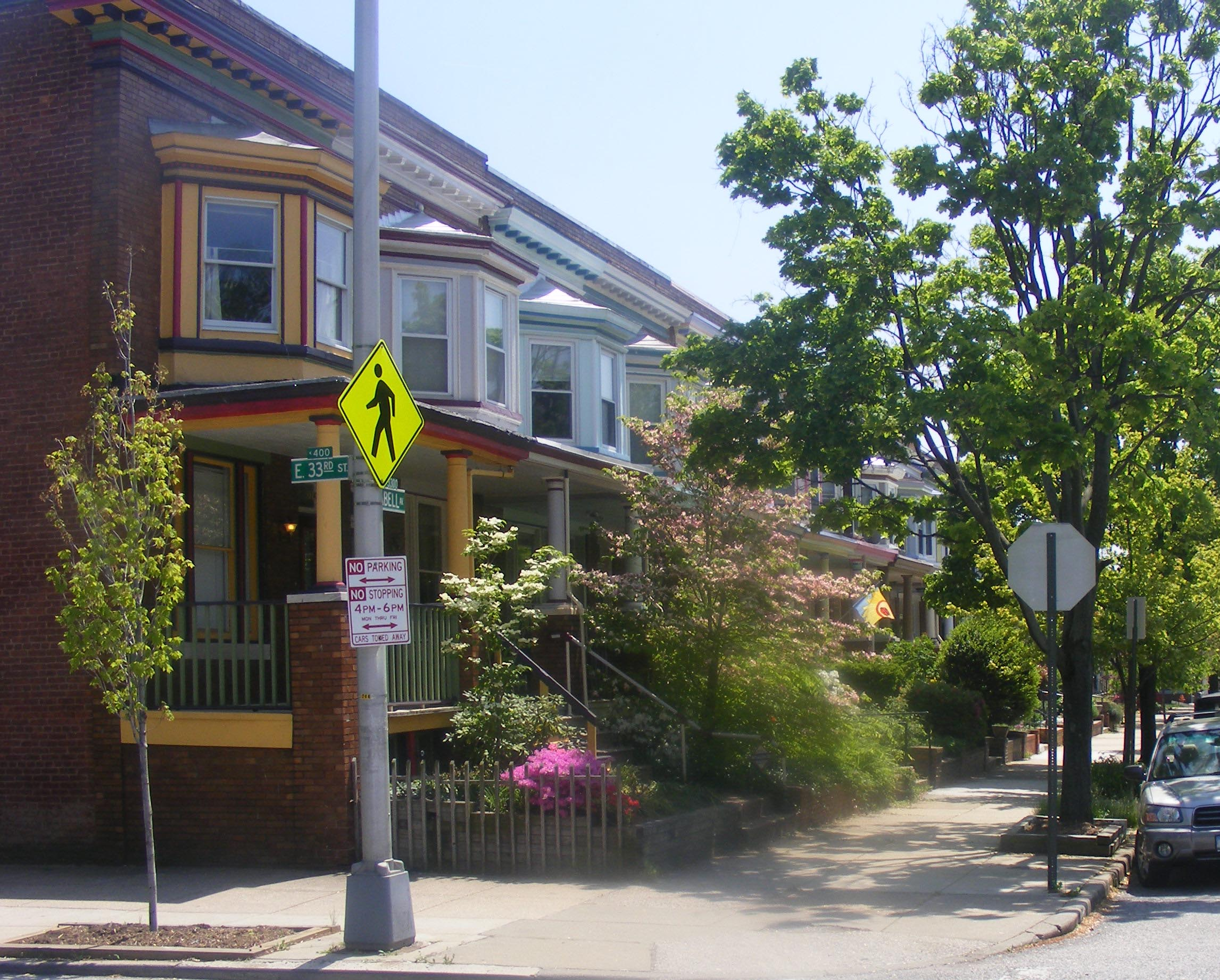 Abell neighborhood, Abell Ave looking south